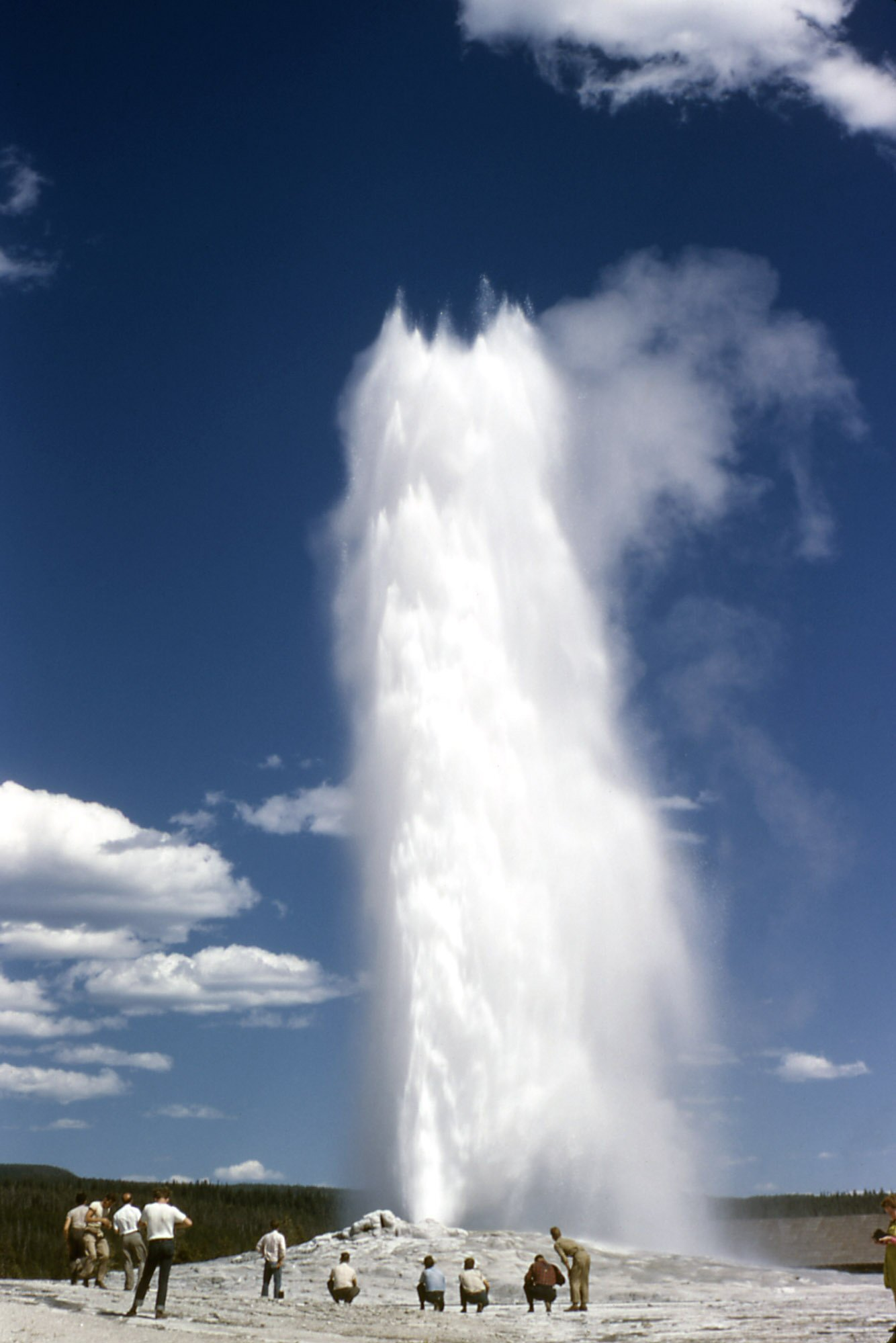 People watching Old Faithful erupt from geyser cone, Yellowstone National Park, 1948